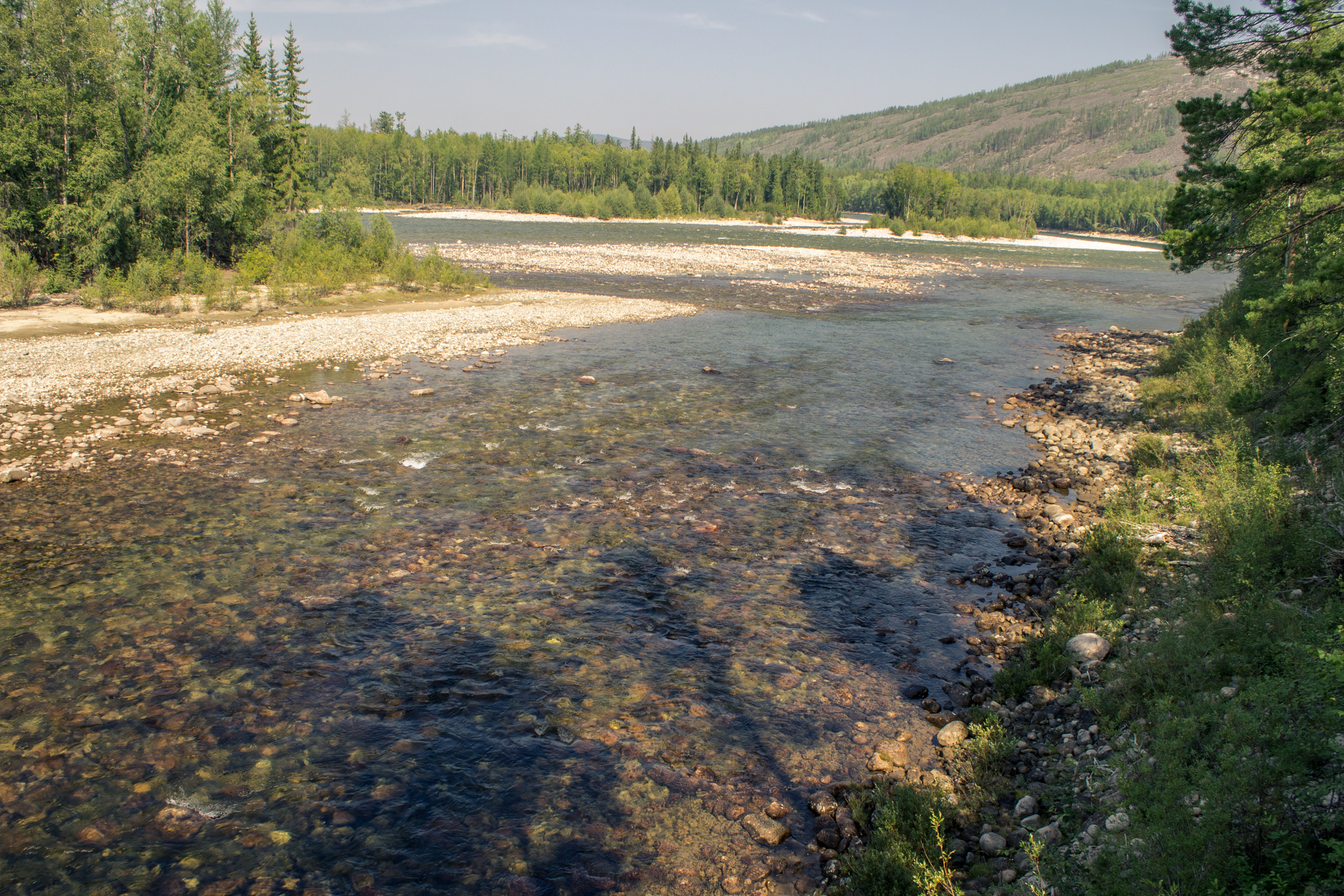 Река Мамакан, приток Витима